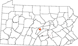 Map of Lewistown